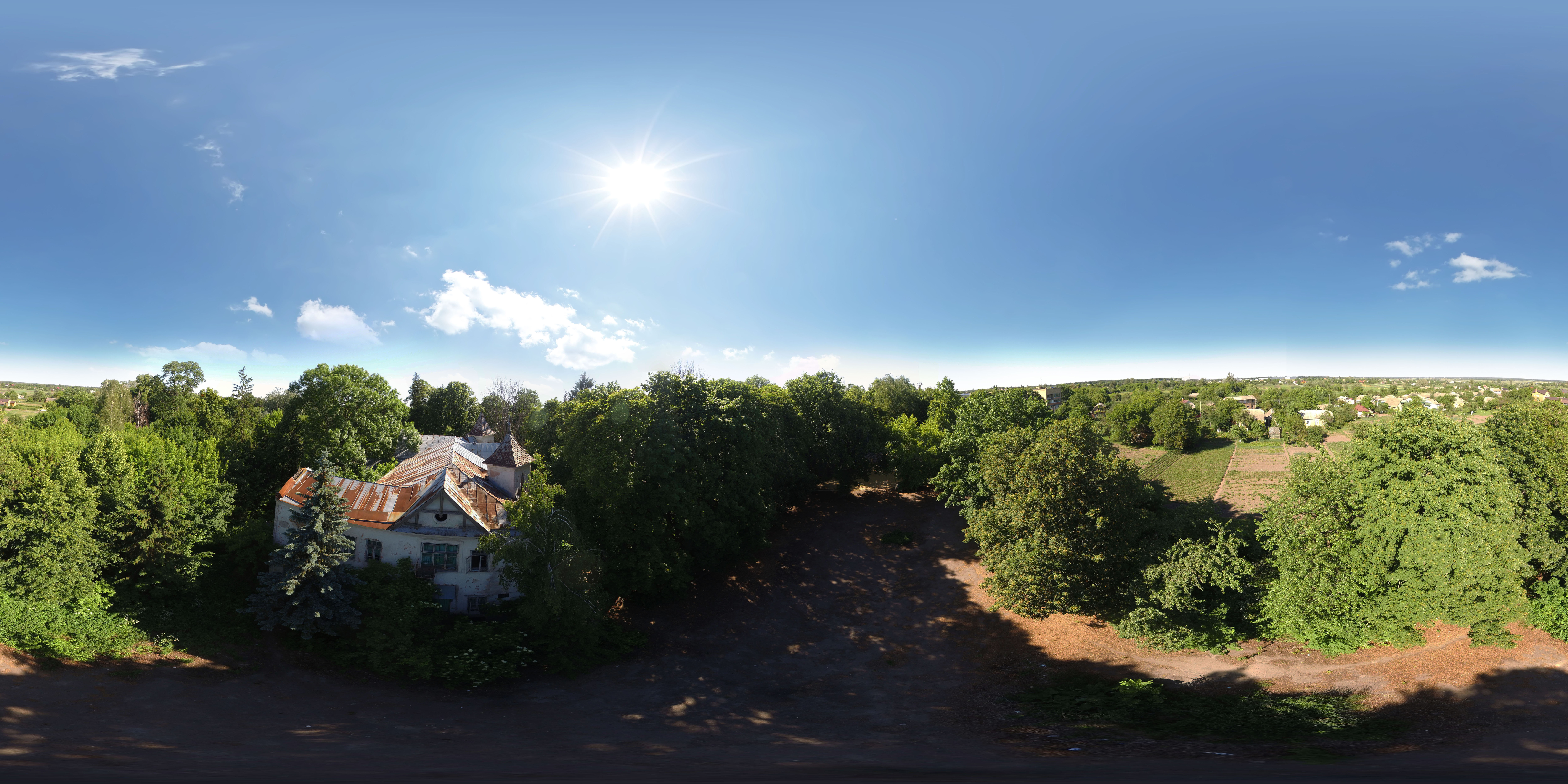 Маєток фон Мекк